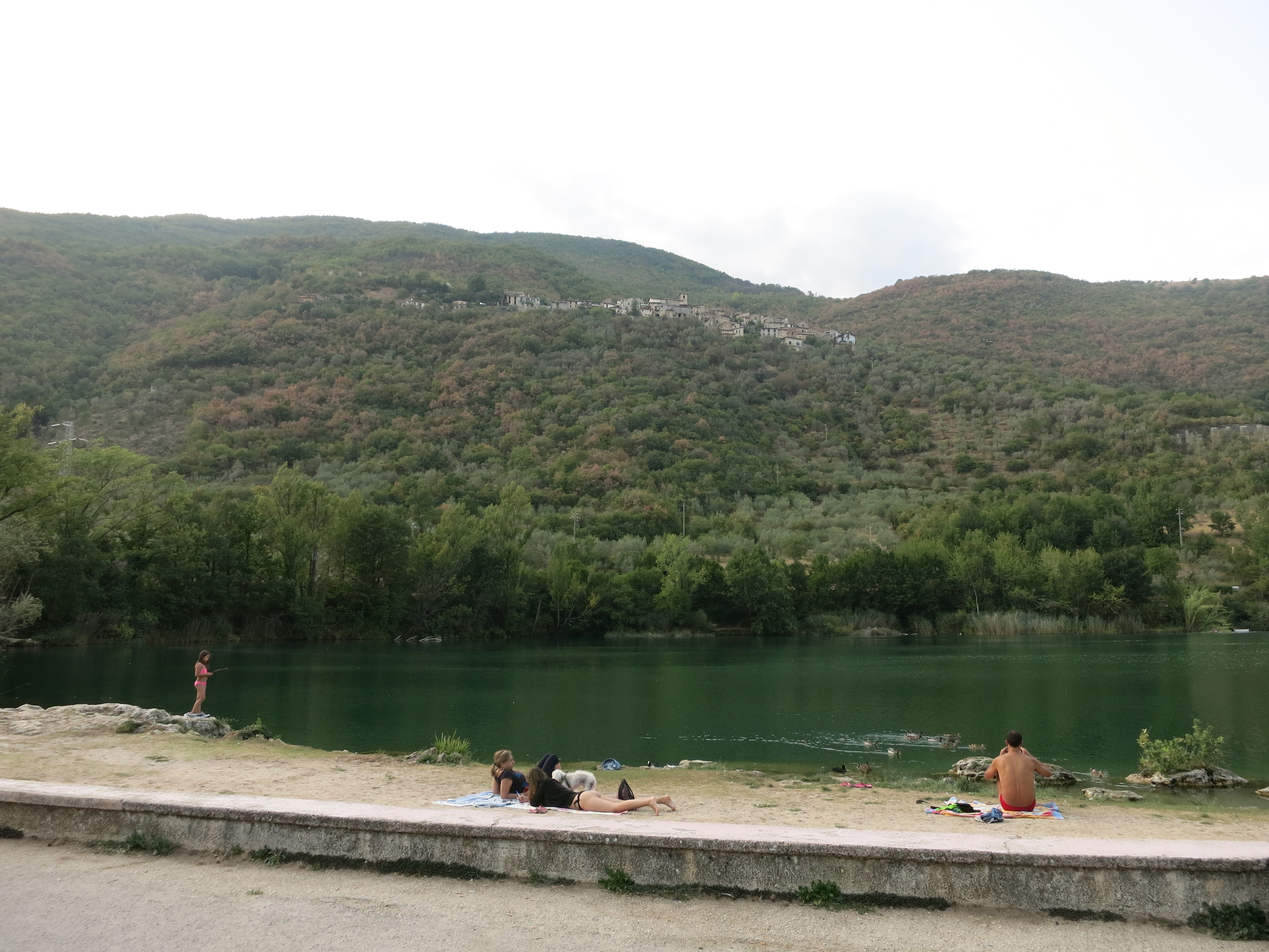 Lake of Paterno or Lake of Cutilia - province of Rieti, central Italy